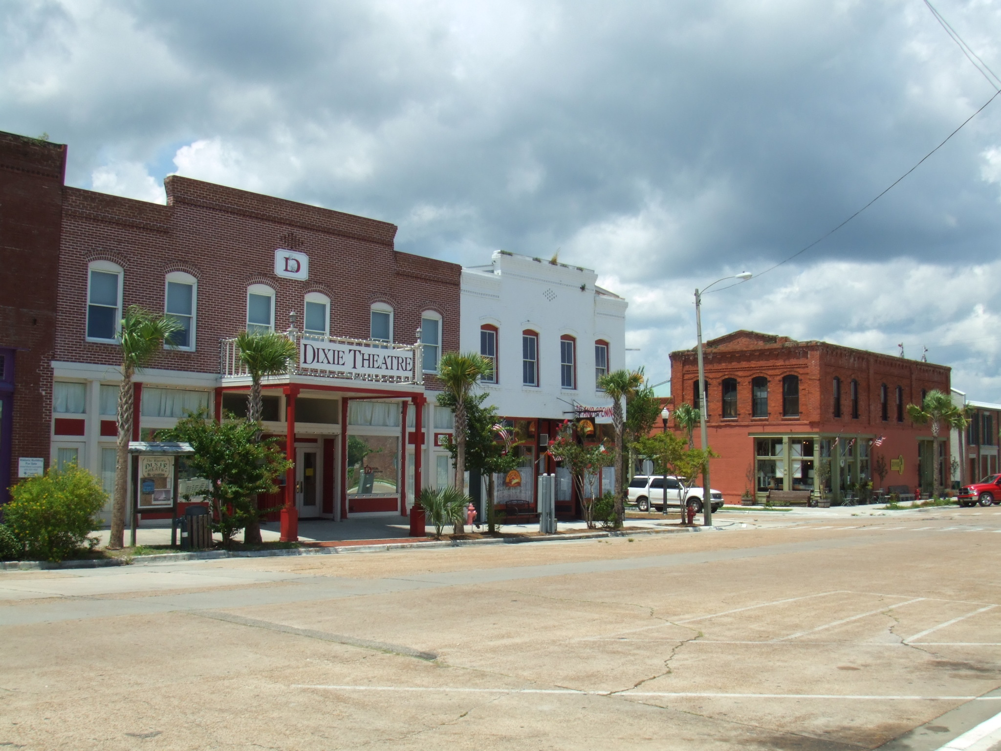 A street in Apalachicola showing the Dixie Theatre, Apalachicola, Florida, USA